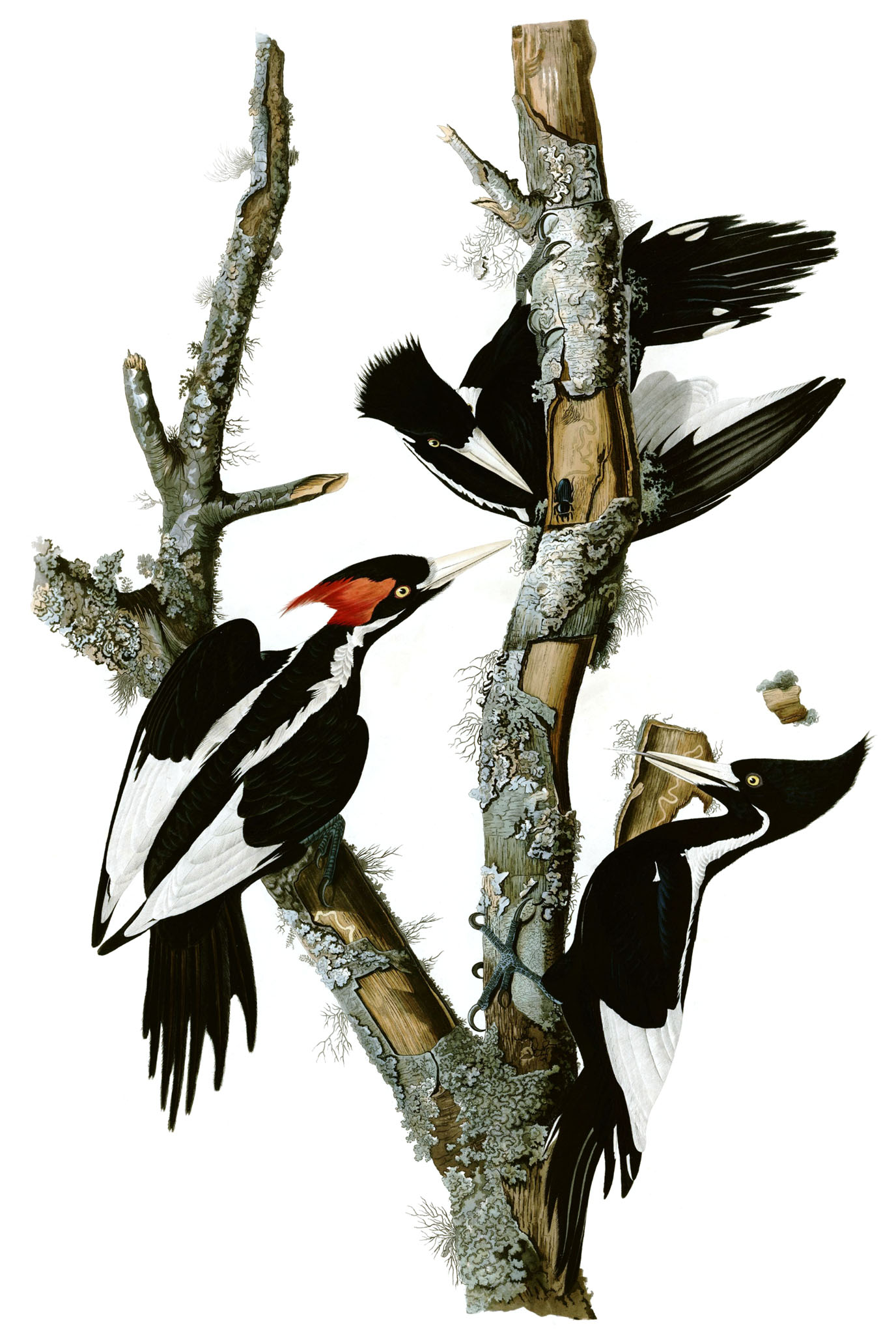 Ivory-billed Woodpecker , Campephilus principalis, hand-colored engraving. Male on the left, female on the right.